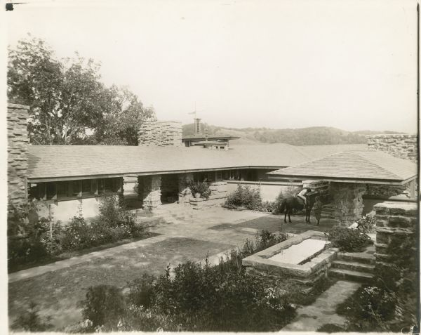 The courtyard of Taliesin I after completion in 1912.